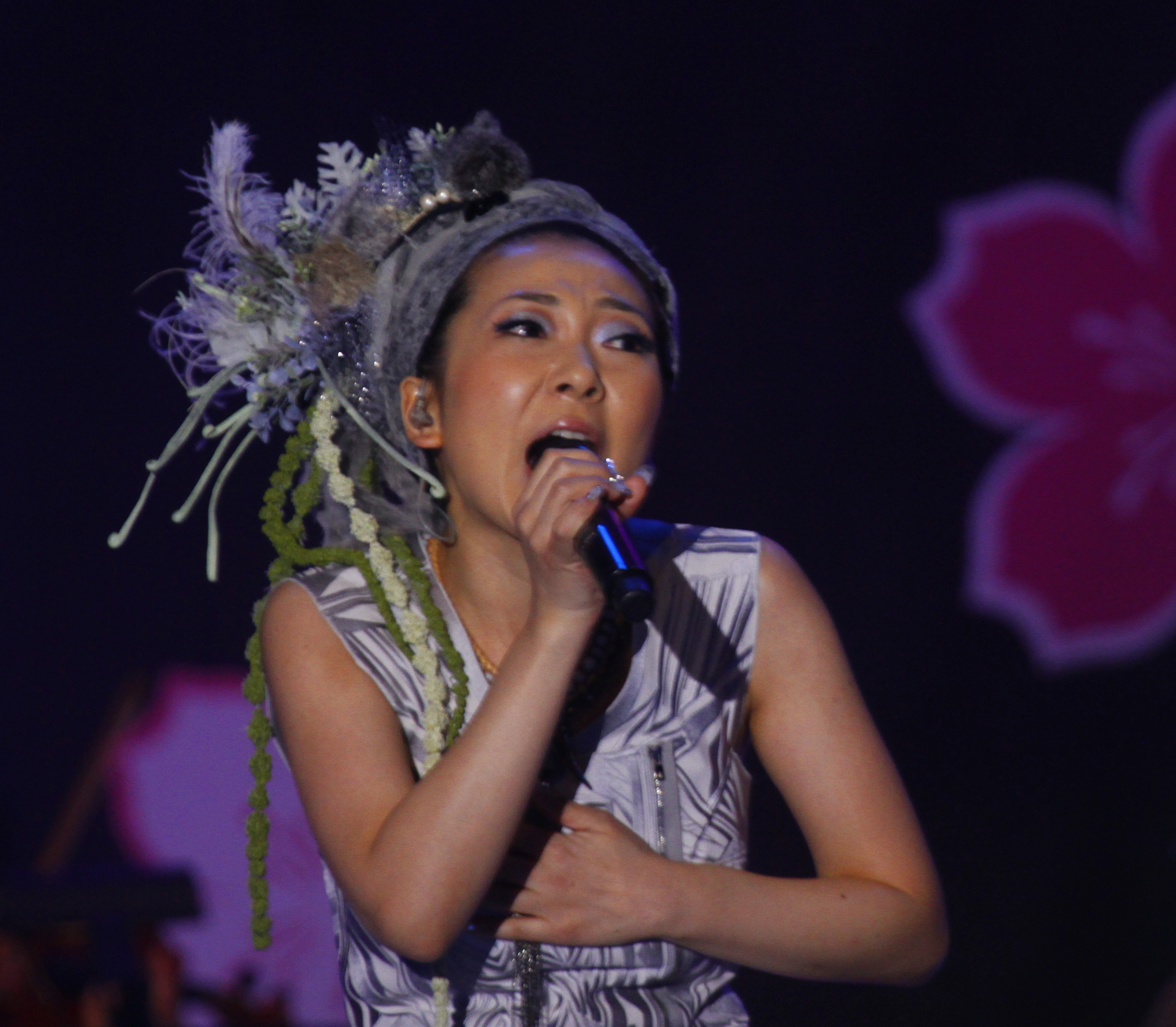 MISIA at the Centennial Opening Ceremonies for the 2012 Cherry Blossom Festival